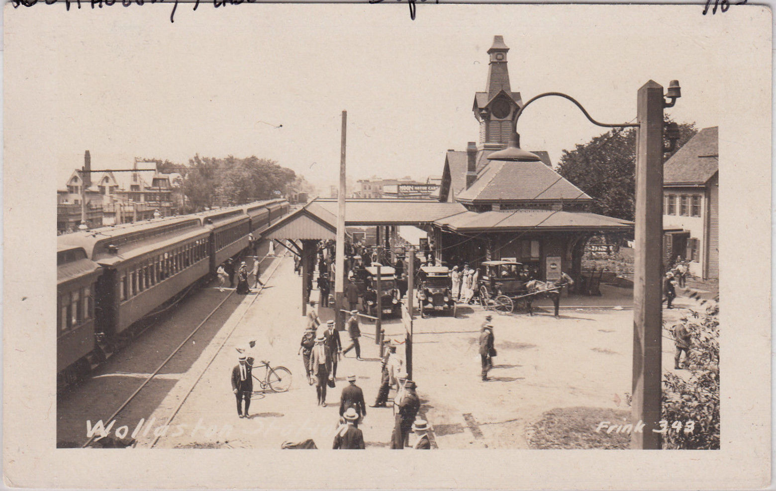 Early divided back postcard of Wollaston station